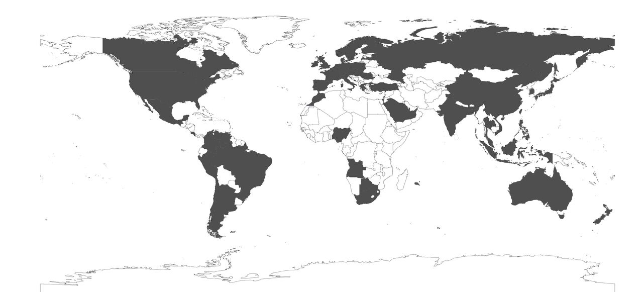 Global map showing countries where Accenture has operations as of September 2015.